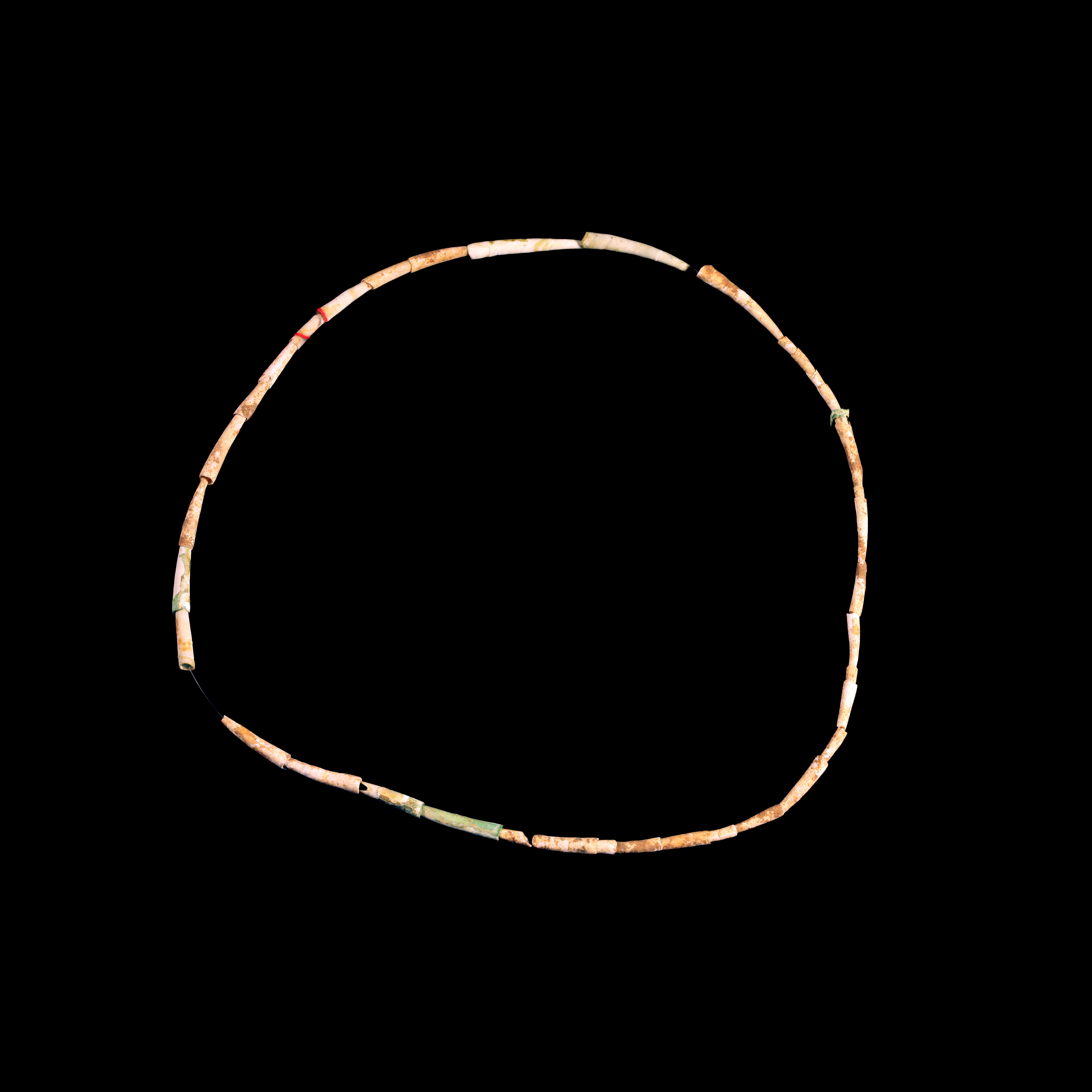 Necklace made of shellfish Found in Penne, Tarn Bronze Age 16 x 16 x 0.4 cm, 6.2 g Muséum de Toulouse, accession number PRE.2009.0.238.1